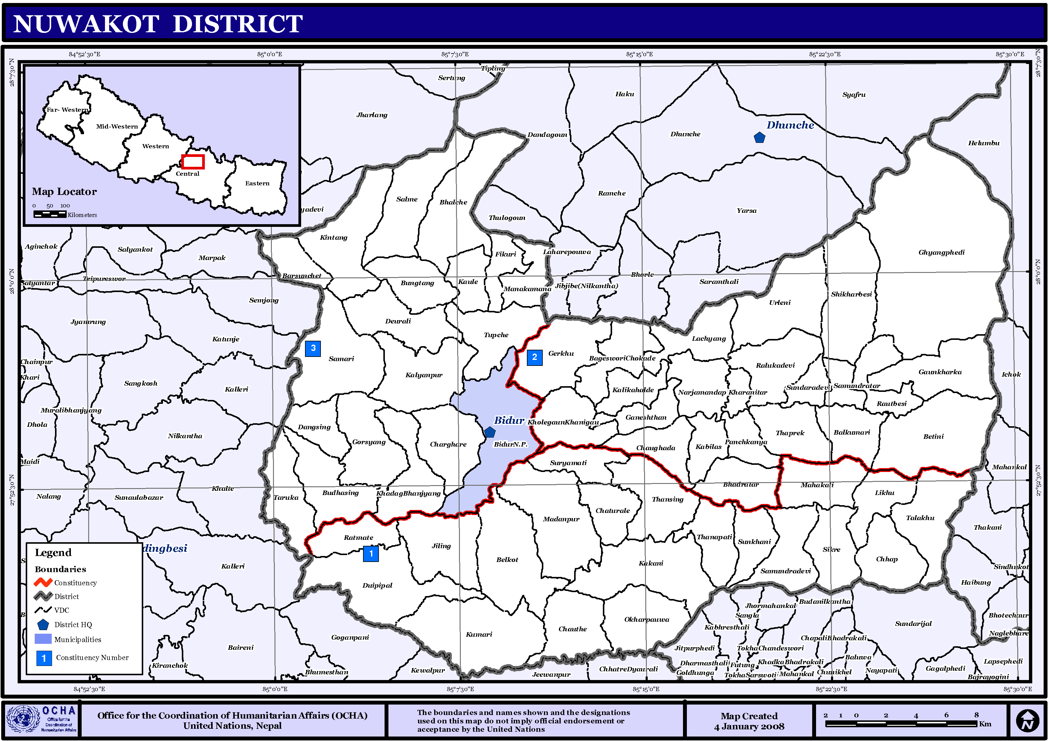 Map displaying Village Development Committees in Nuwakot District, Nepal